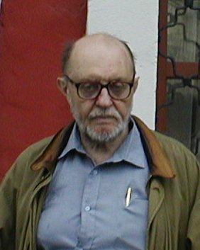 OLYMPUS DIGITAL CAMERA. Фото сделано в Москве, у церкви Всех святых на Кулишках.